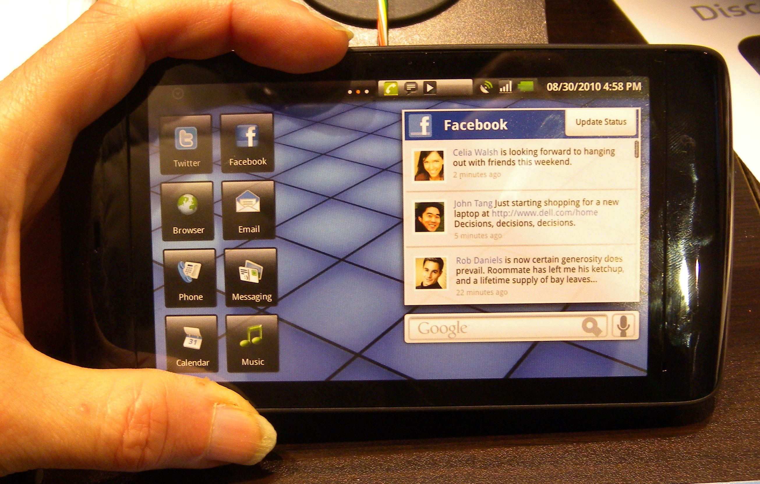 Dell Streak at Best Buy with mockup screen.